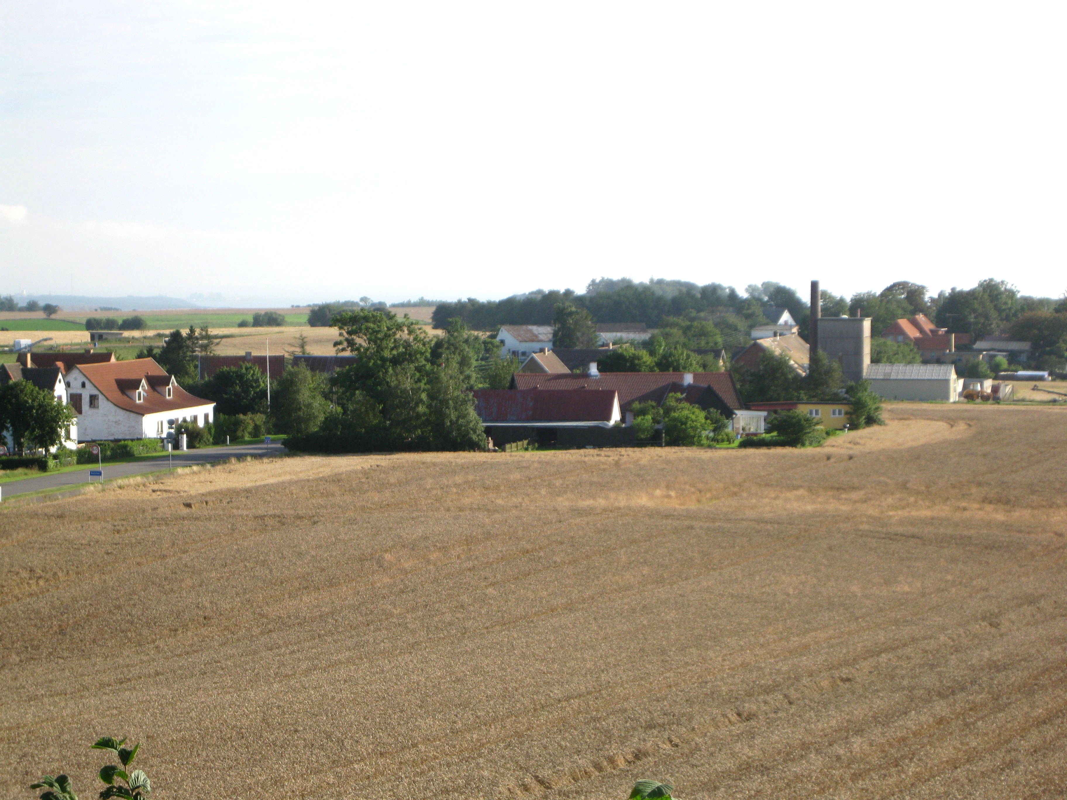 The village "Rutsker" located on the northern part of the island Bornholm in east Denmark.